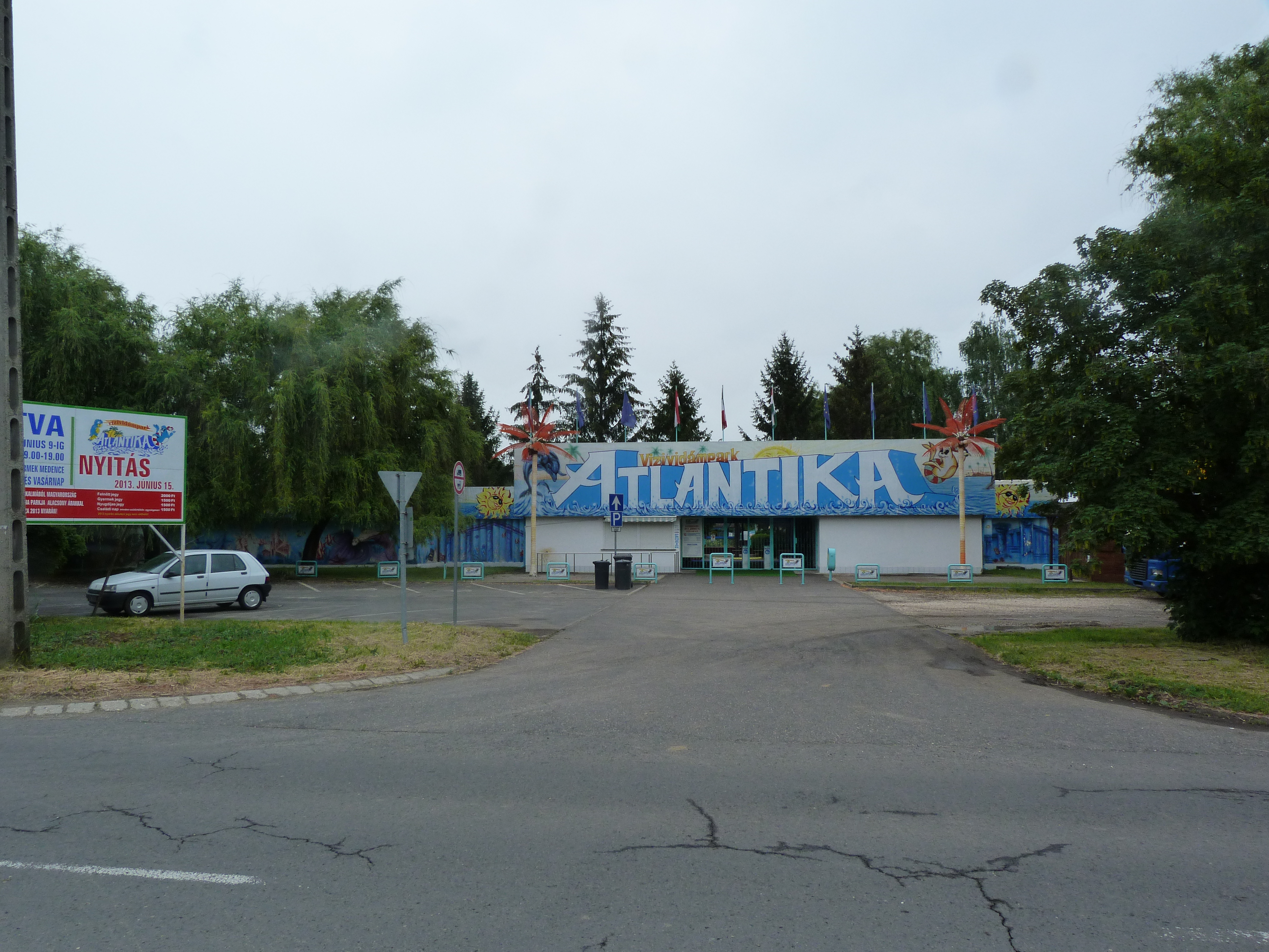 Live on the 15th of May, 2013. Gergelyiugornya (Vásárosnamény), Hungary, Central Europe. Atlantica Water Park.